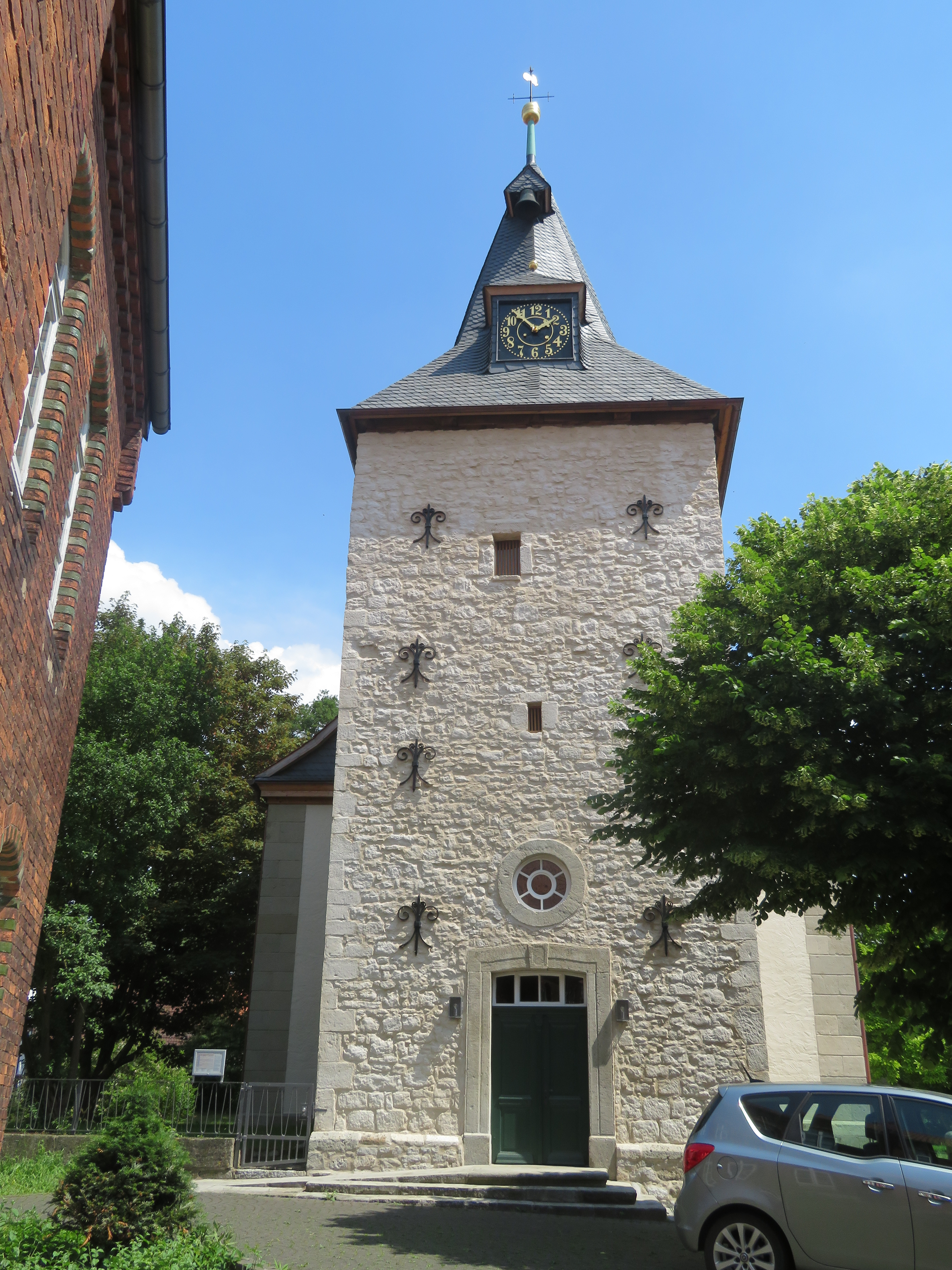 Protestant Church Saint Georg, Freden (Leine), Lower Saxony, Germany